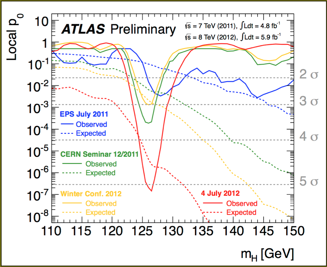 The ATLAS experiments presented on July 4th 2012 the status of the Standard Model Higgs search. All the plots presented that day where done using ROOT.